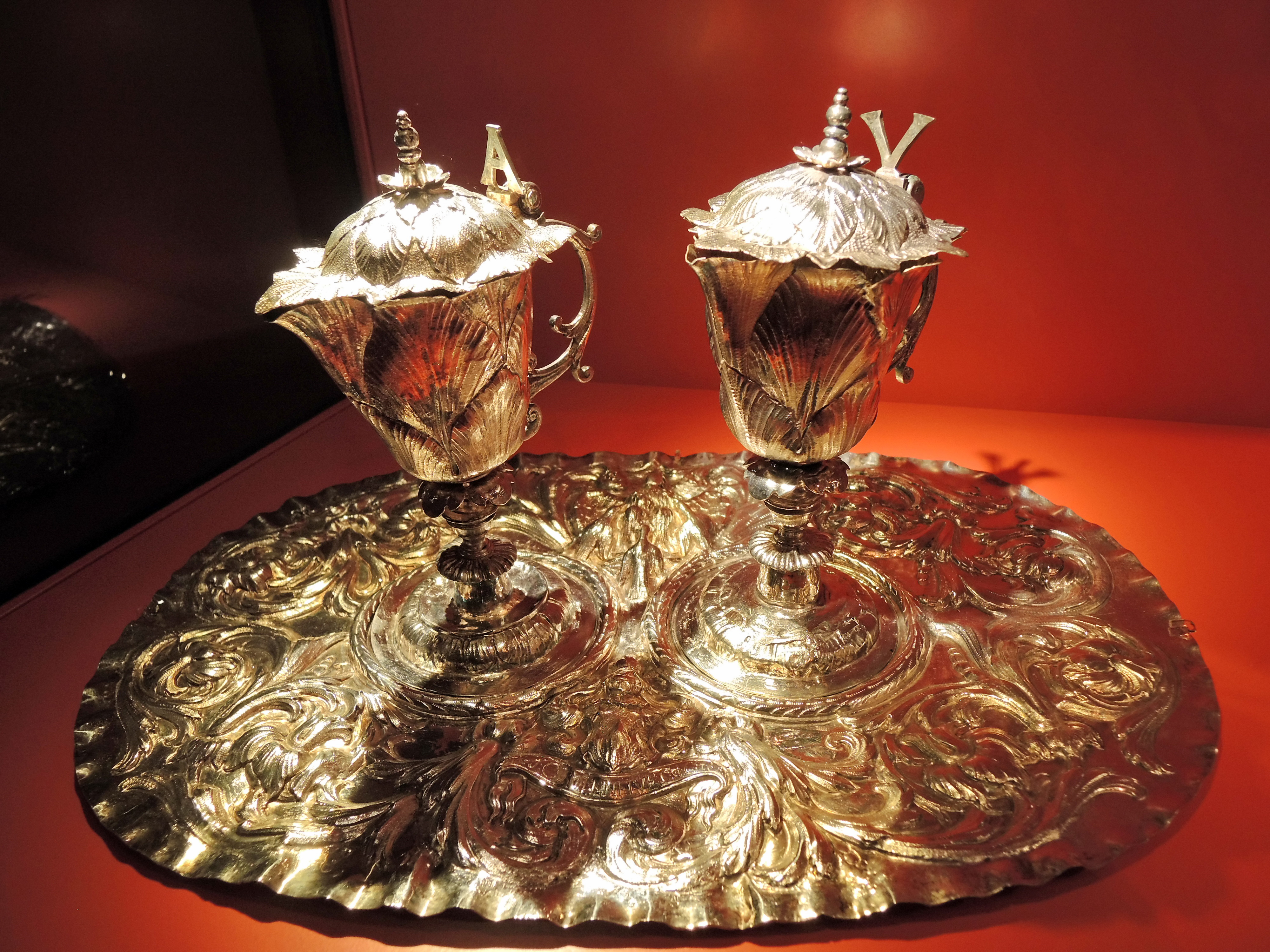 Collection of the Stadtmuseum in Rapperswil (Switzerland): church treasury of Stadtpfarrkirche St. Johann. Kredenzplatte mit Messkännchen, 1681, eine Arbeit von Heinrich Domeisen (1653-1723) aus Rapperswil..